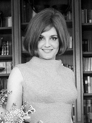 Italian actress Rossana Podestà (Carla Dora Podestà) posing smiling in her house in Rome. Rome, 1965